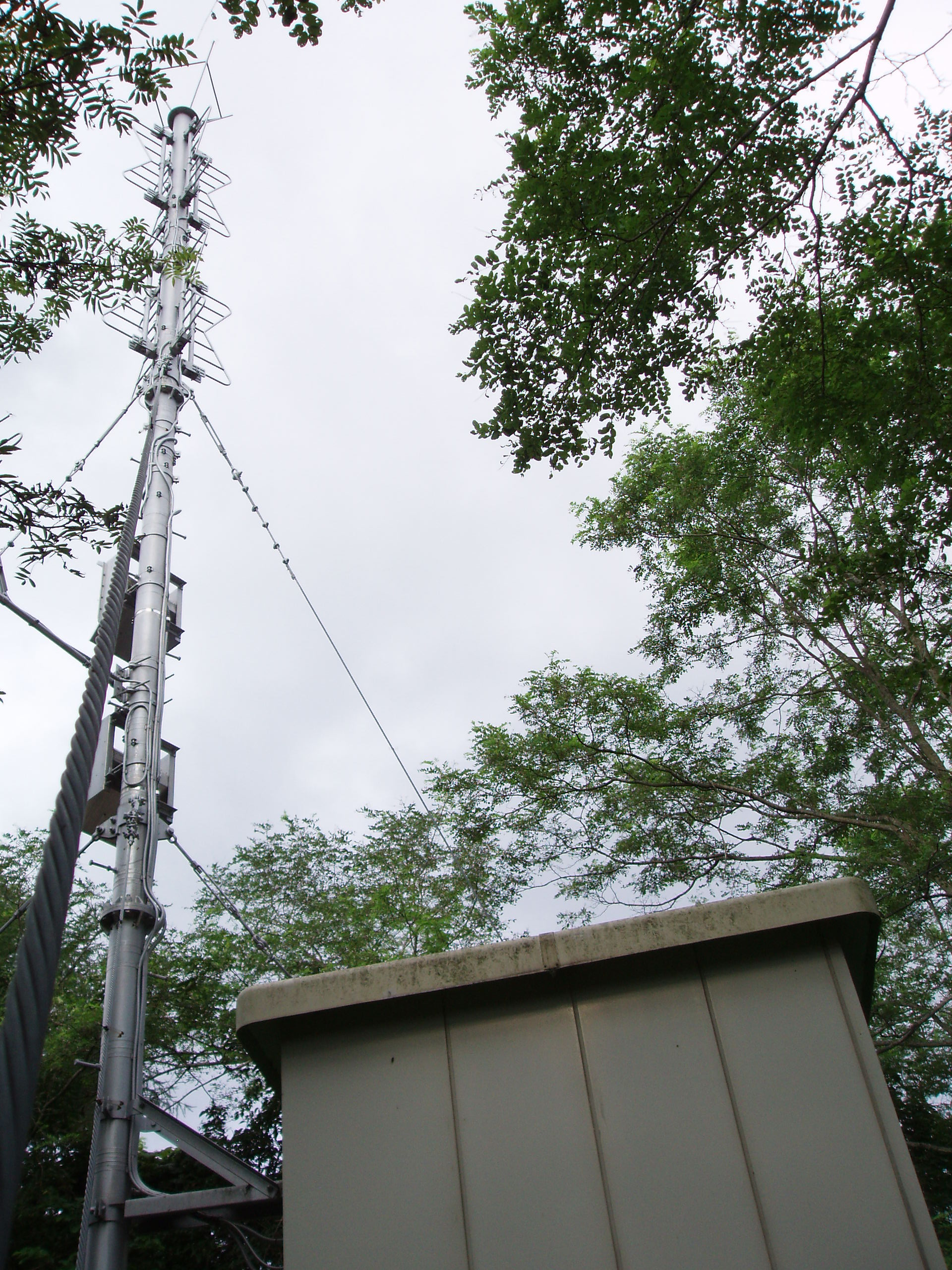 NHK transmitter at the Kamisunagawa Broadcasting Relay Station